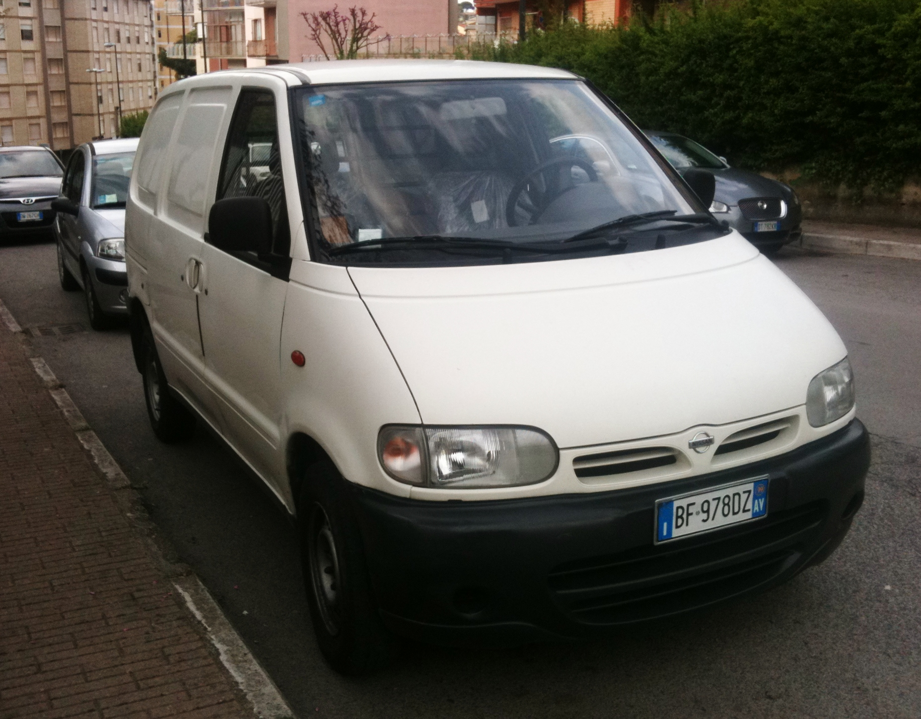 Nissan Vanette E 2.3d front in Avellino